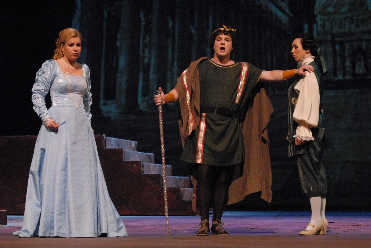 "Eternal Light in Music (Evening with Mozzart & Johann jr Strauss)", opera project of SNT, Novi Sad, 2009/10; Darija Olajoš Čizmić, Saša Štulić, Jelena Končar Srpski (latinica): "Večna svetlost u muzici (Veče uz Mocarta i Štrausa)", operski projekat SNP-a, Novi Sad, 2009/10; Darija Olajoš Čizmić, Saša Štulić, Jelena Končar Српски (ћирилица): "Вечна светлост у музици (Вече уз Моцарта и Штрауса)" оперски пројекат СНП-а, Нови Сад, 2009/10; Дарија Олајош Чизмић, Саша Штулић, Јелена Кончар